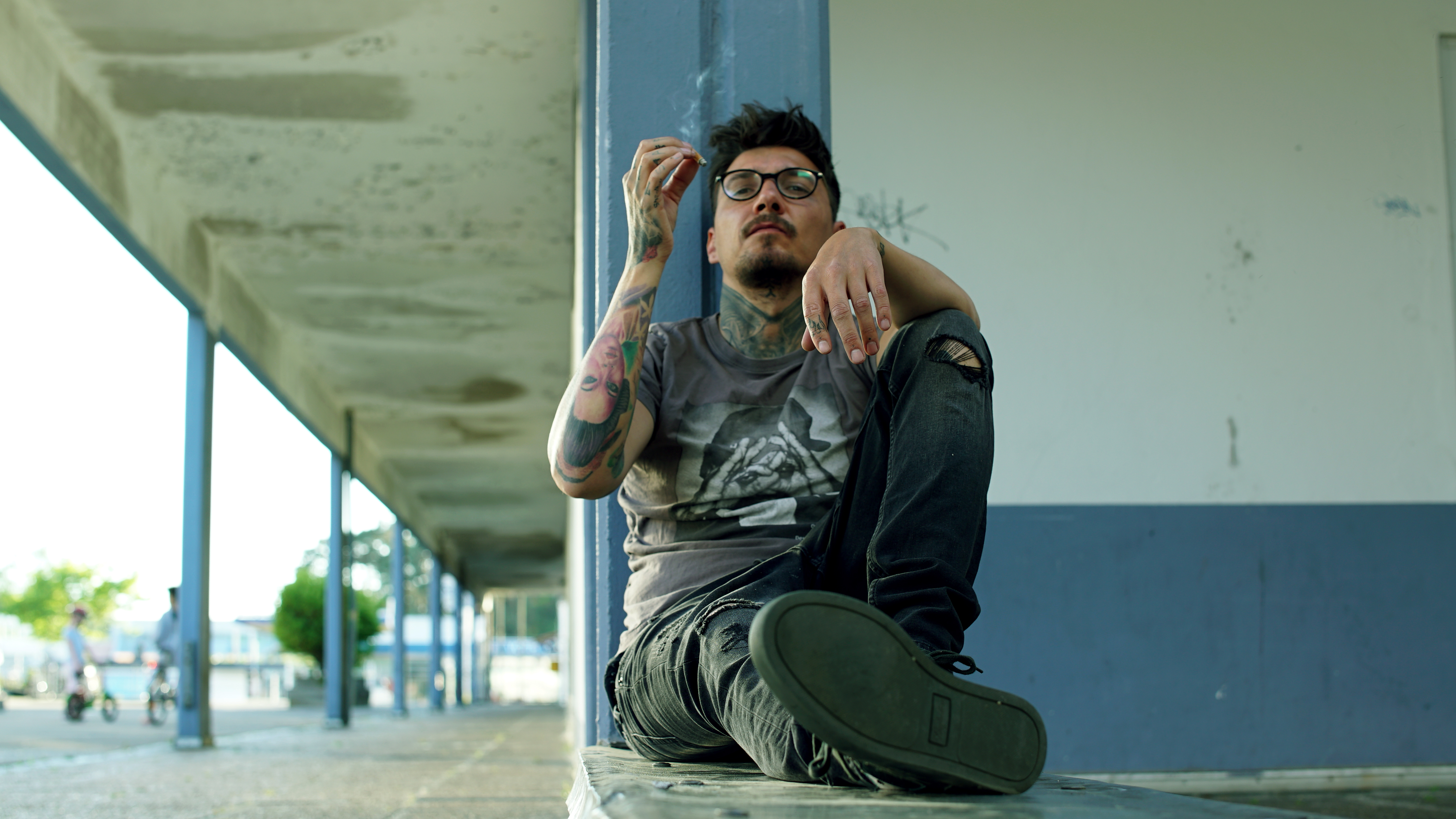 Pressefoto von Timi Hendrix